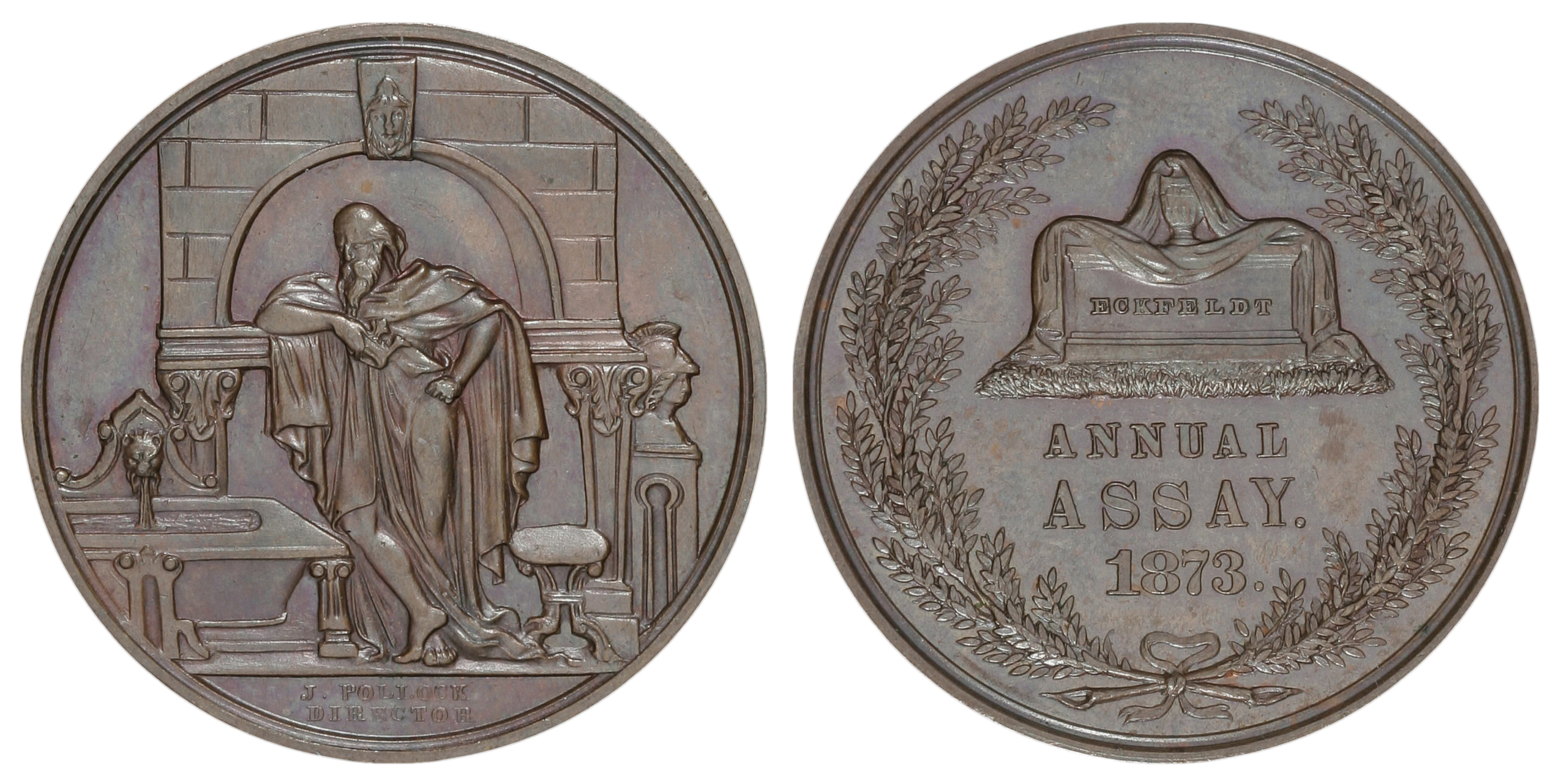 1873 Assay Commission Medal (Julian AC-12)(416-6573)